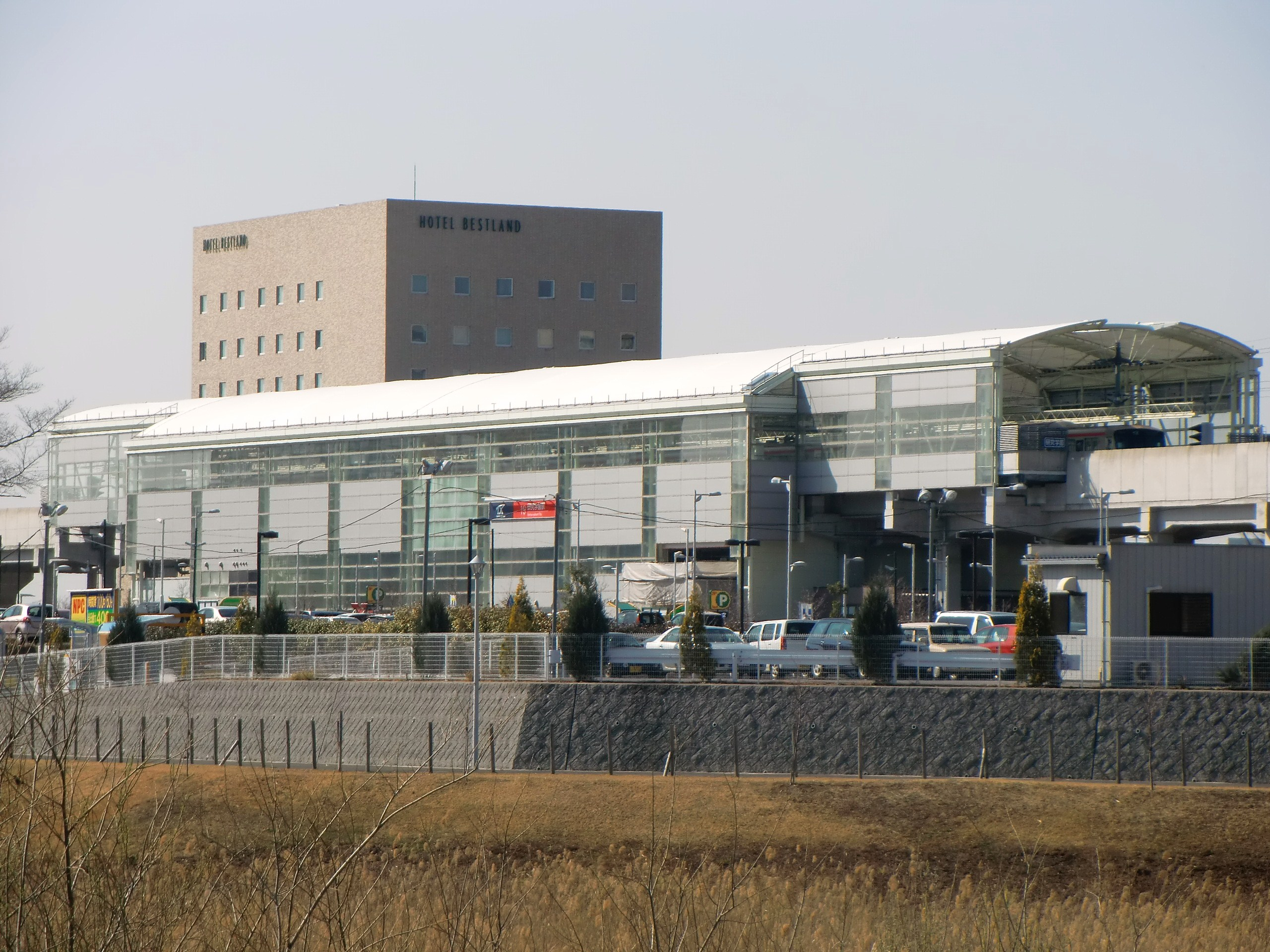 Tsukuba Express line Kenkyū-gakuen Station South side in Kenkyūgakuen , Tsukuba city, Ibaraki prefecture, Japan.